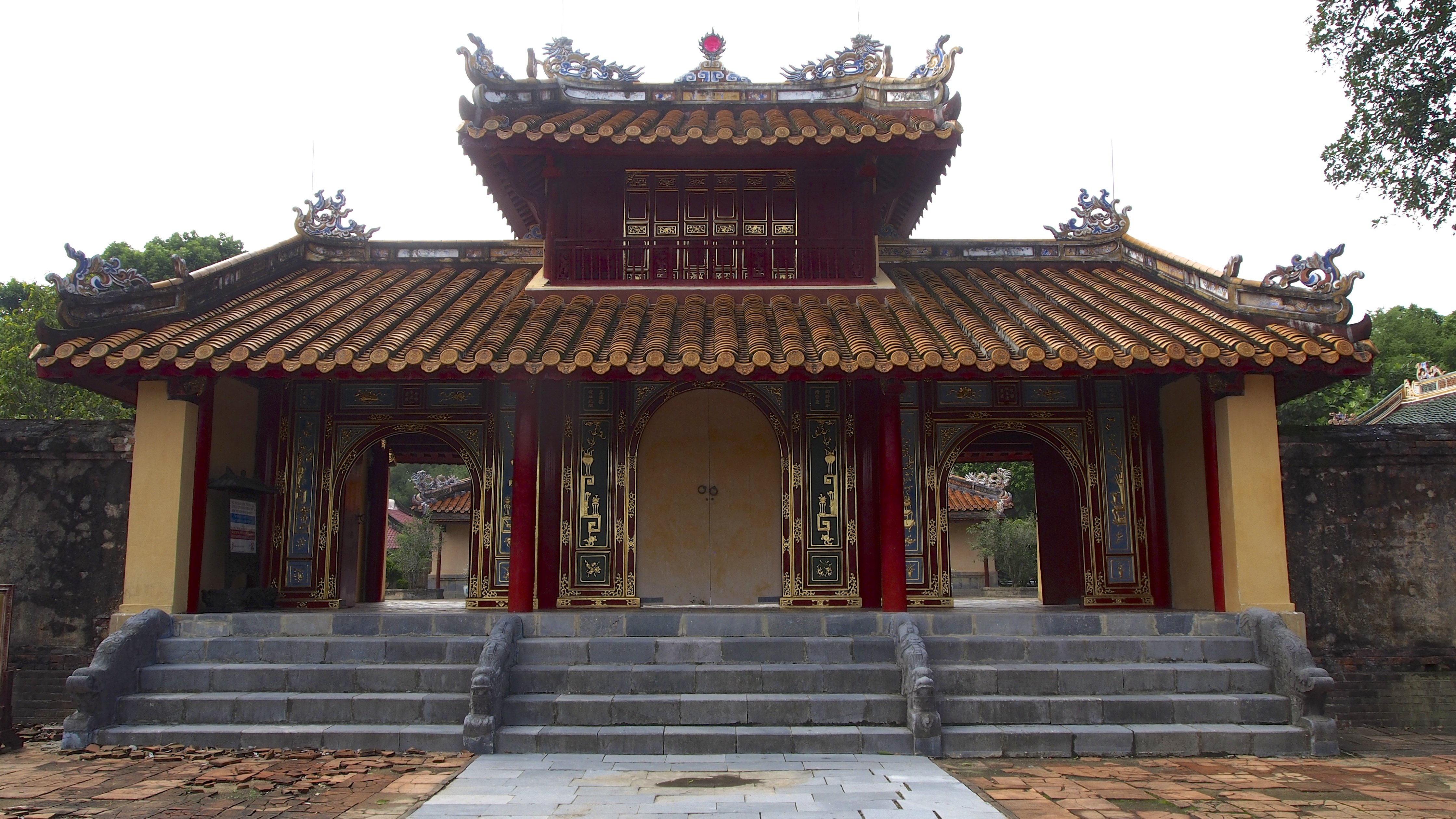 Imperial Tomb of Emperor Minh Mang